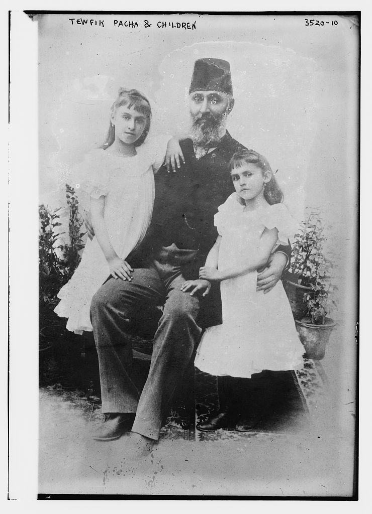 Ahmed Tevfik Pasha and children (Turkish: Ahmed Tevfik Paşa)